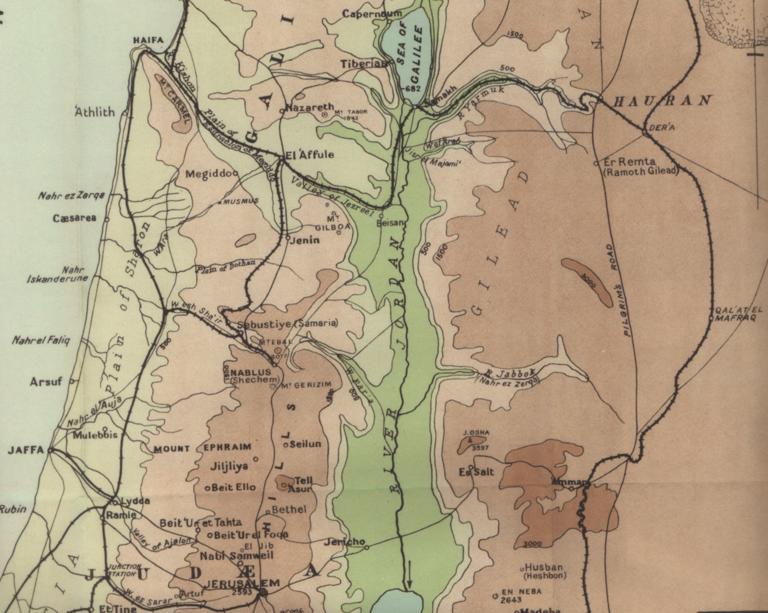 Map of Megiddo battlefield.